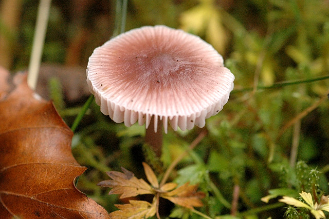 Mycena pura from Commanster, Belgium. The determination of the species shown in this picture has been verified.